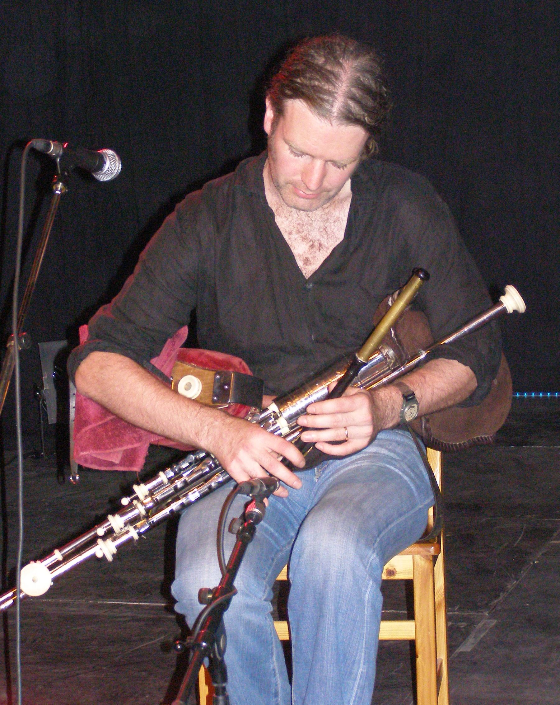 Cillian Vallely playing Uillean Pipes during a Lúnasa performance at the "Danse Avec Le Loup" celtic music festival in Corbeyrier, Switzerland. Taken by Storkk.